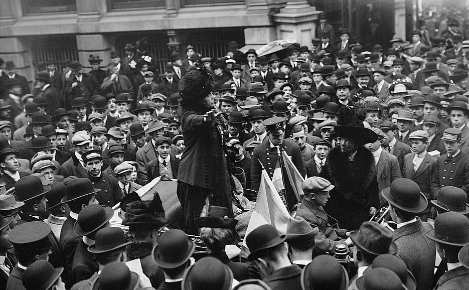 Bain News Service,, publisher. Mrs. H. S. Blatch in Wall St. [between 1910 and 1915] 1 negative : glass ; 5 x 7 in. or smaller. Notes: Title from unverified data provided by the Bain News Service on the negatives or caption cards. Forms part of: George Grantham Bain Collection (Library of Congress). Format: Glass negatives. Repository: Library of Congress, Prints and Photographs Division, Washington, D.C. 20540 USA, General information about the Bain Collection is available at Persistent URL: Call Number: LC-B2- 2357-7